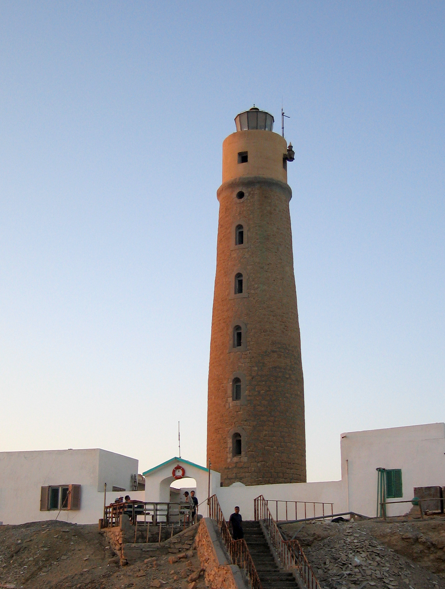 Lighthouse on Big Brother